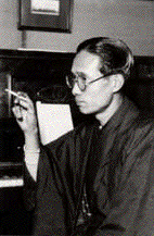 A photo of Isotaro Sugata